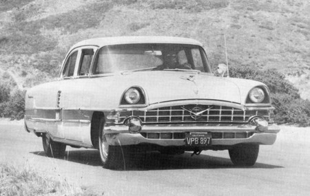 Packard Patrician 1956